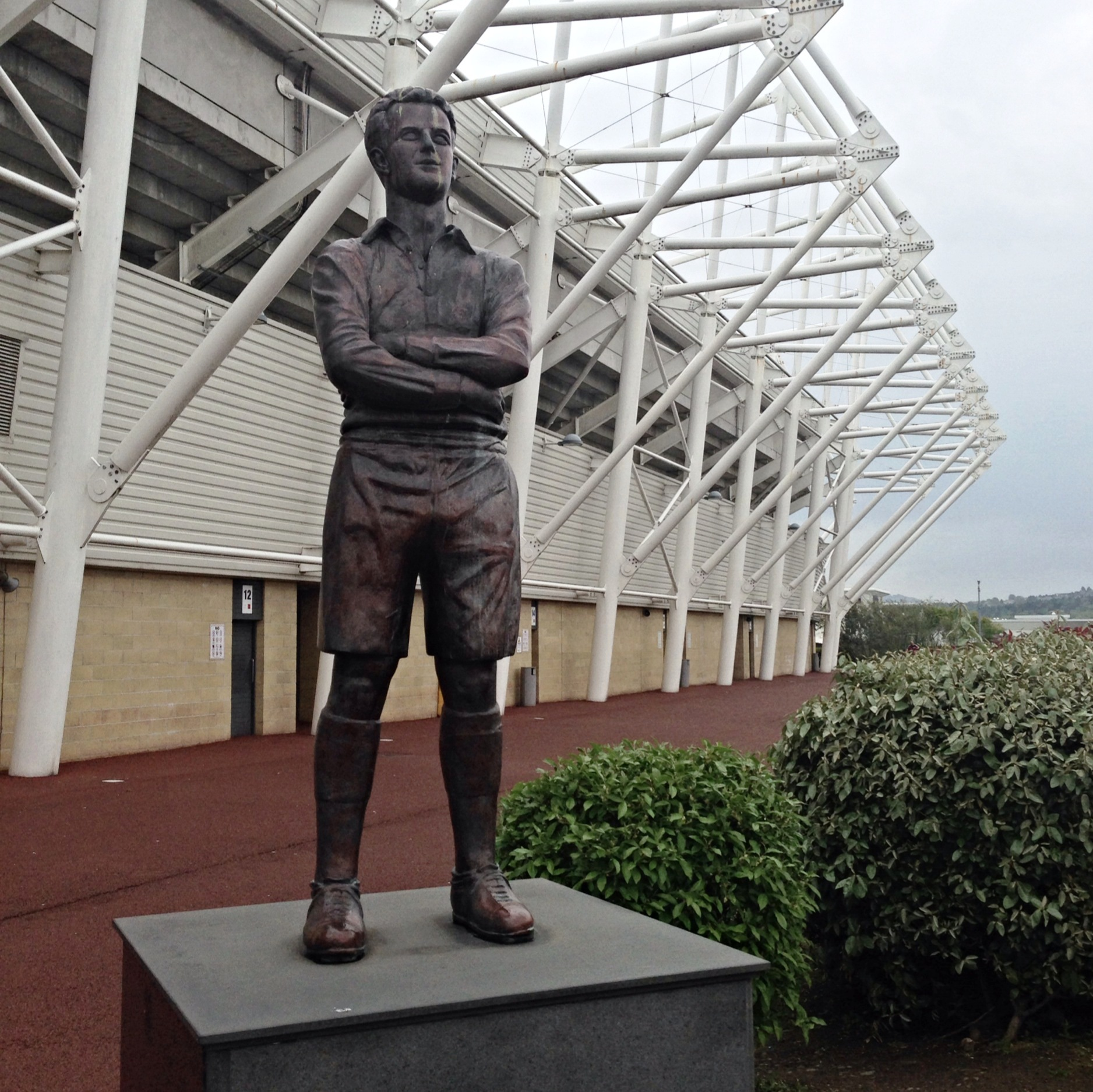 Statue of former professional footballer Ivor Allchurch outside the Liberty Stadium in Swansea, Wales